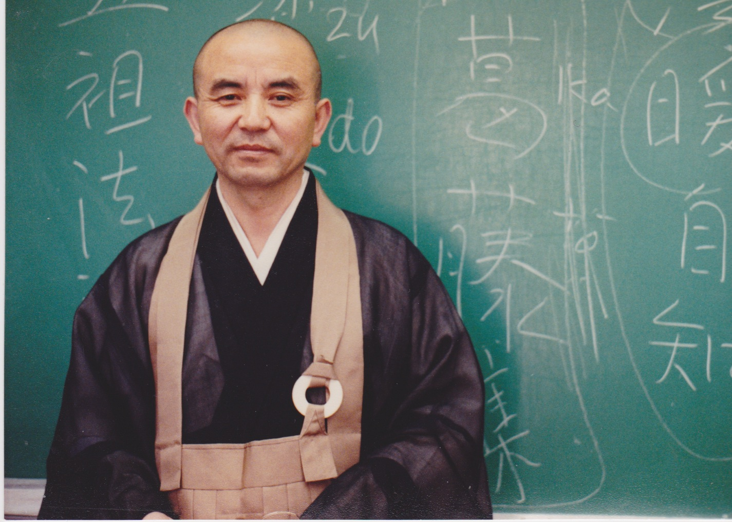 Eshin Nishimura, teaching at Carleton College, Northfield MN, 1989